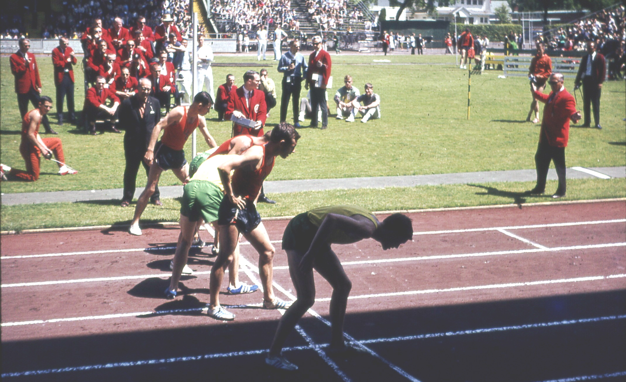 A track and field dual meet event at Hayward Field between the Oregon Ducks and the Oregon State Beavers. The race is either the mile or two mile. The runner on the outside lane is Kenny Moore.